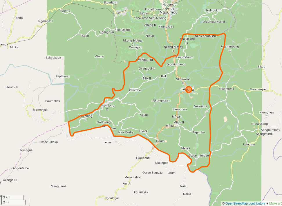 Akono, Cameroon ; city boundaries with OSM. This map may be incomplete, and may contain errors. Don't rely solely on it for navigation.